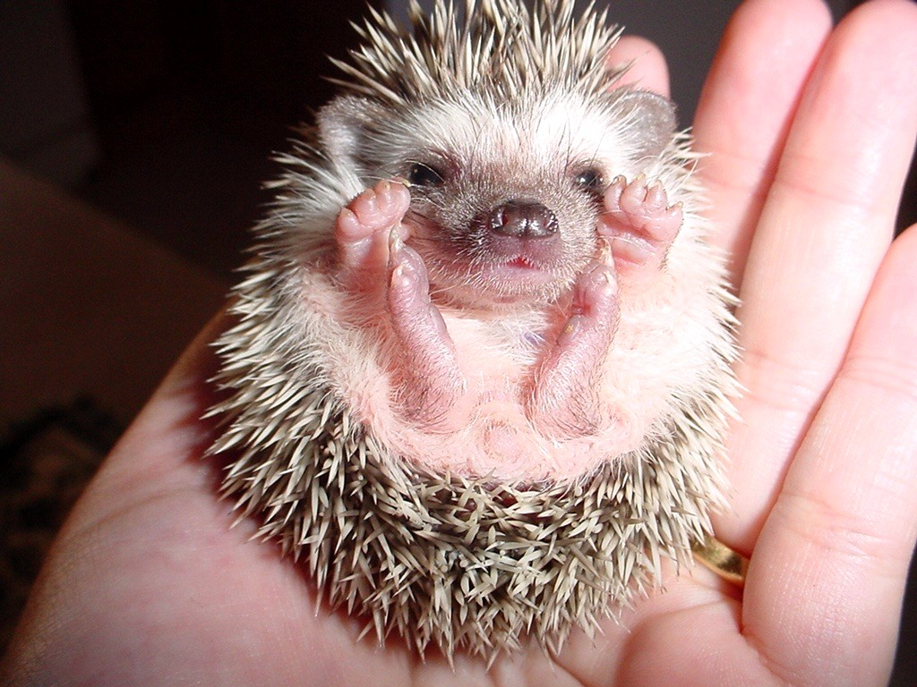 a Desert Hedgehog cub (Paraechinus aethopicus) curled up in a man's hand.